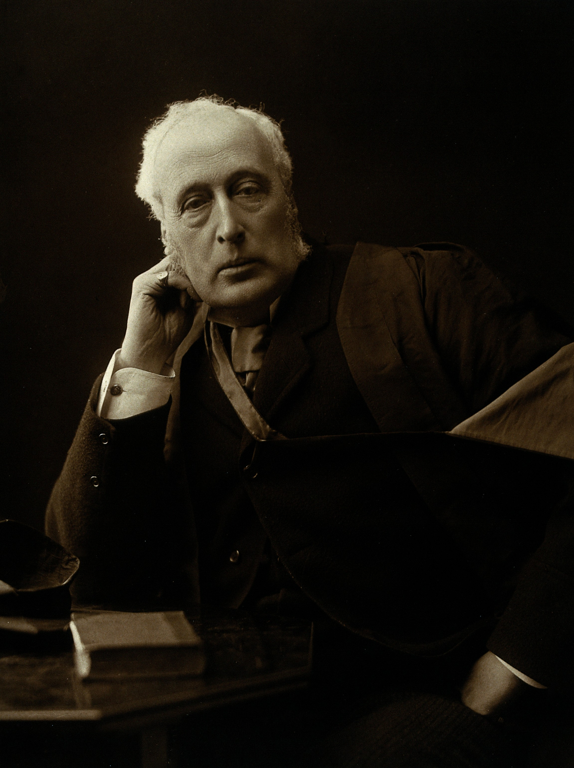 Sir George Husband Baird Macleod. Photograph by T. & R. Annan & Sons. Iconographic Collections Keywords: portrait photographs